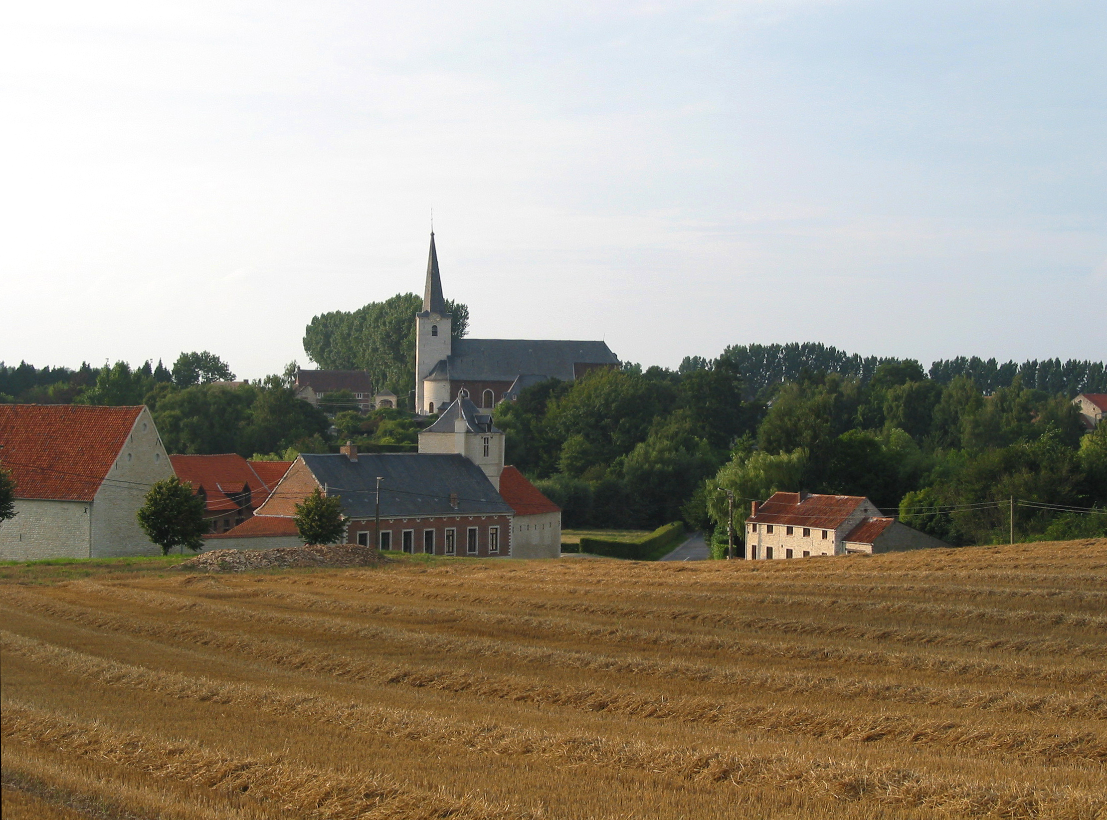 Mélin (Belgium), the harvest in the village.